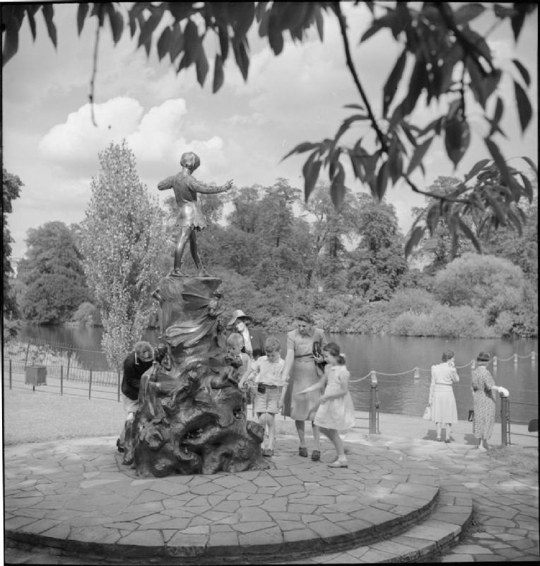 London Parks- Entertainment and Relaxation in the Heart of the City, London, England, 1943 On a sunny late summer afternoon, a group of young children, accompanied by their mother, inspect the bronze statue of Peter Pan in Kensington Gardens. Behind them, two women look out across the waters of the Serpentine.